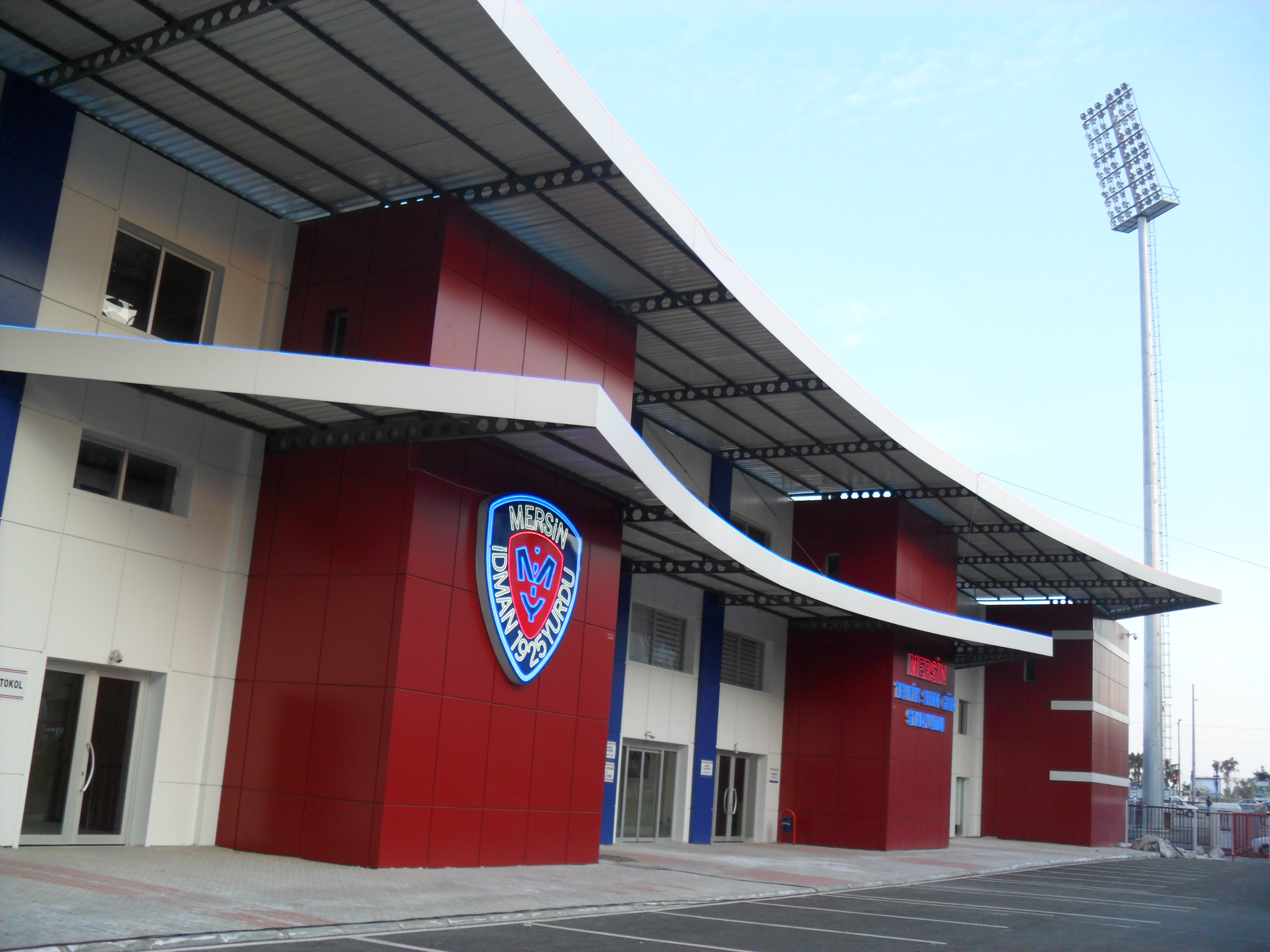 Mersin (Tevfik Sırrı Gür) Stadium, Turkey